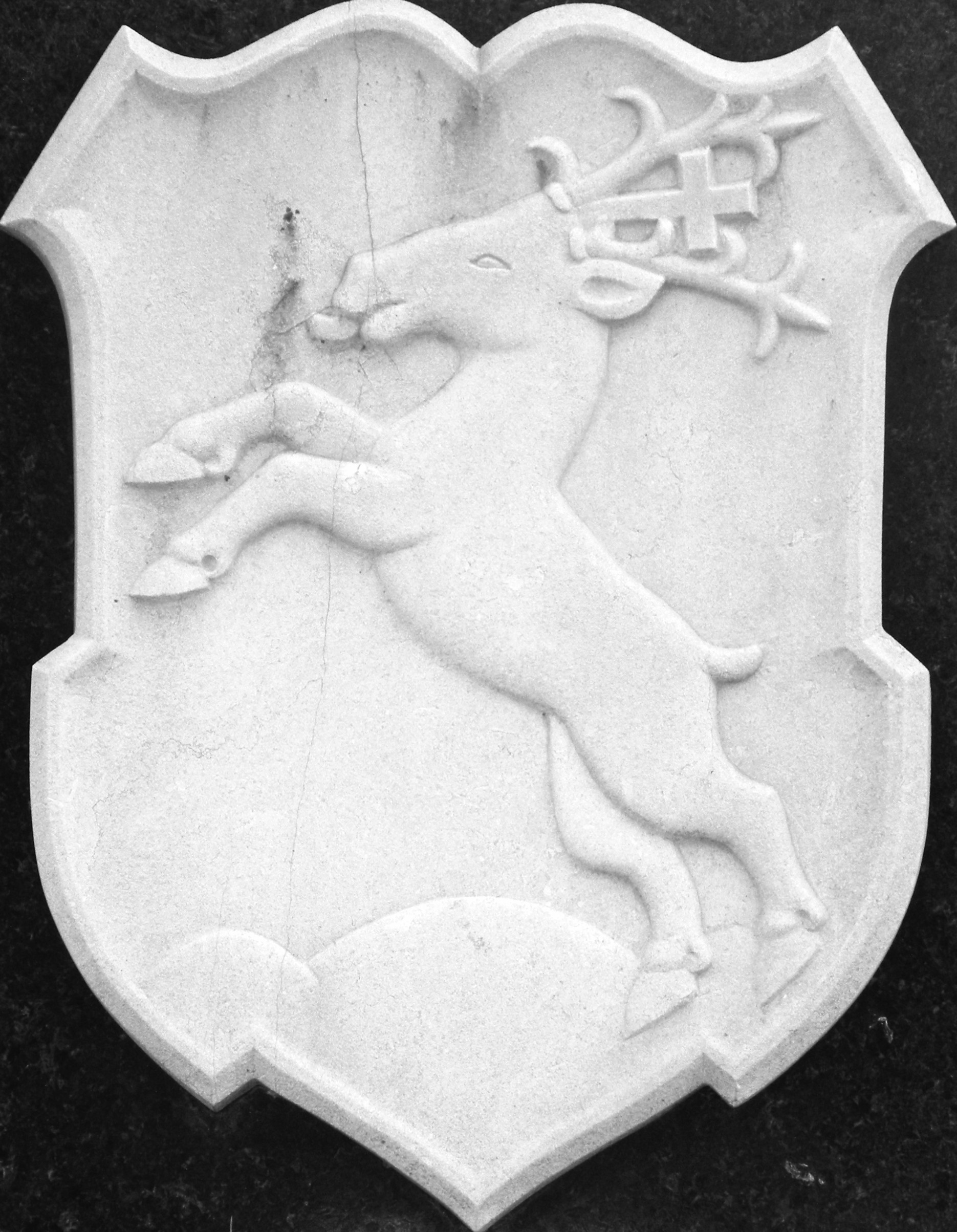 Coat of arms of Erich Peithner. Gravestone in Hietzing Cemetery, Vienna. Grave No. 11-115. Inscription on the gravestone: "FAMILIE // PEITHNER". Left plaque: "APOTHEKER // MR. ERICH PEITHNER // 7. 5. 1901 – 25. 12. 1968 // MRA. MARIA PEITHNER // 10. 4. 1899 – 13. 1. 1978"- Right plaque: "ANDREAS PEITHNER // 6. 4. 1967 – 8. 10. 1991".